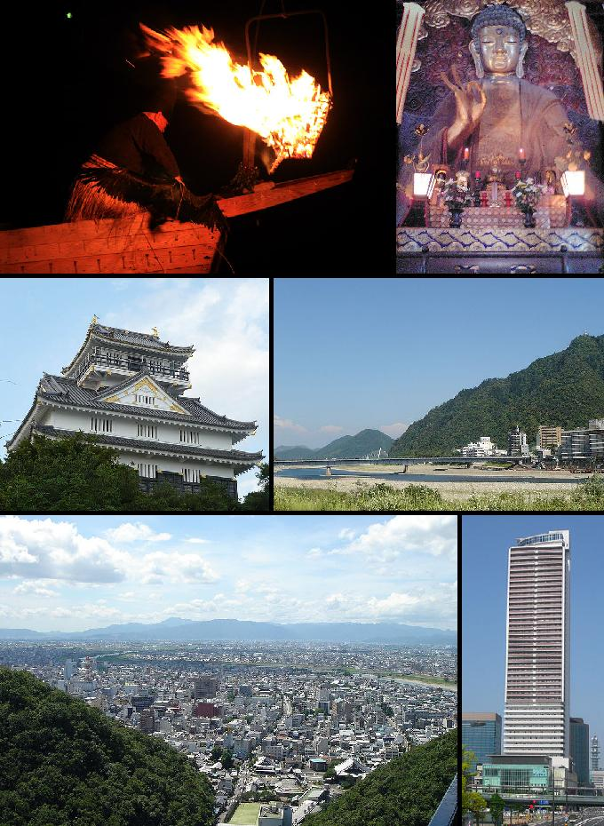 Cormorant Fishing on the Nagara River, Gifu Great Buddha, Gifu Castle, Nagara River and Mt. Kinka, Panorama view of Gifu, Gifu City Tower 43.